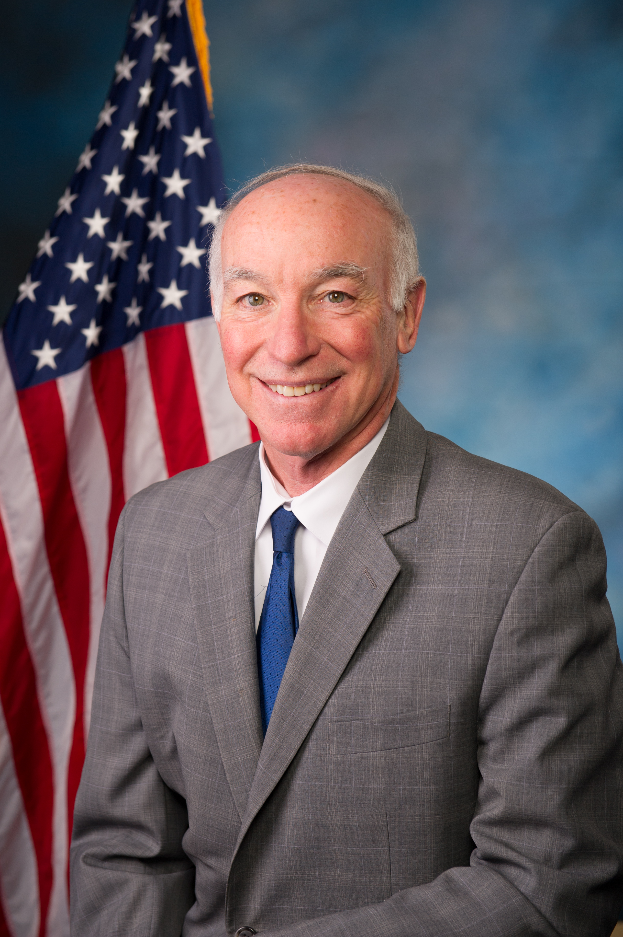 Joe Courtney